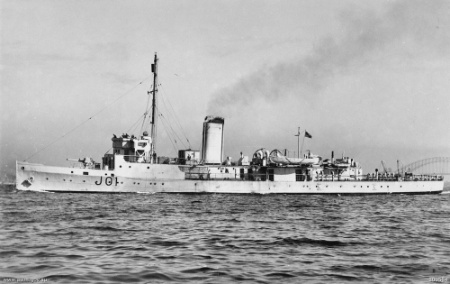 Royal Australian Navy auxiliary anti-submarine vessel HMAS Doomba circa 1942